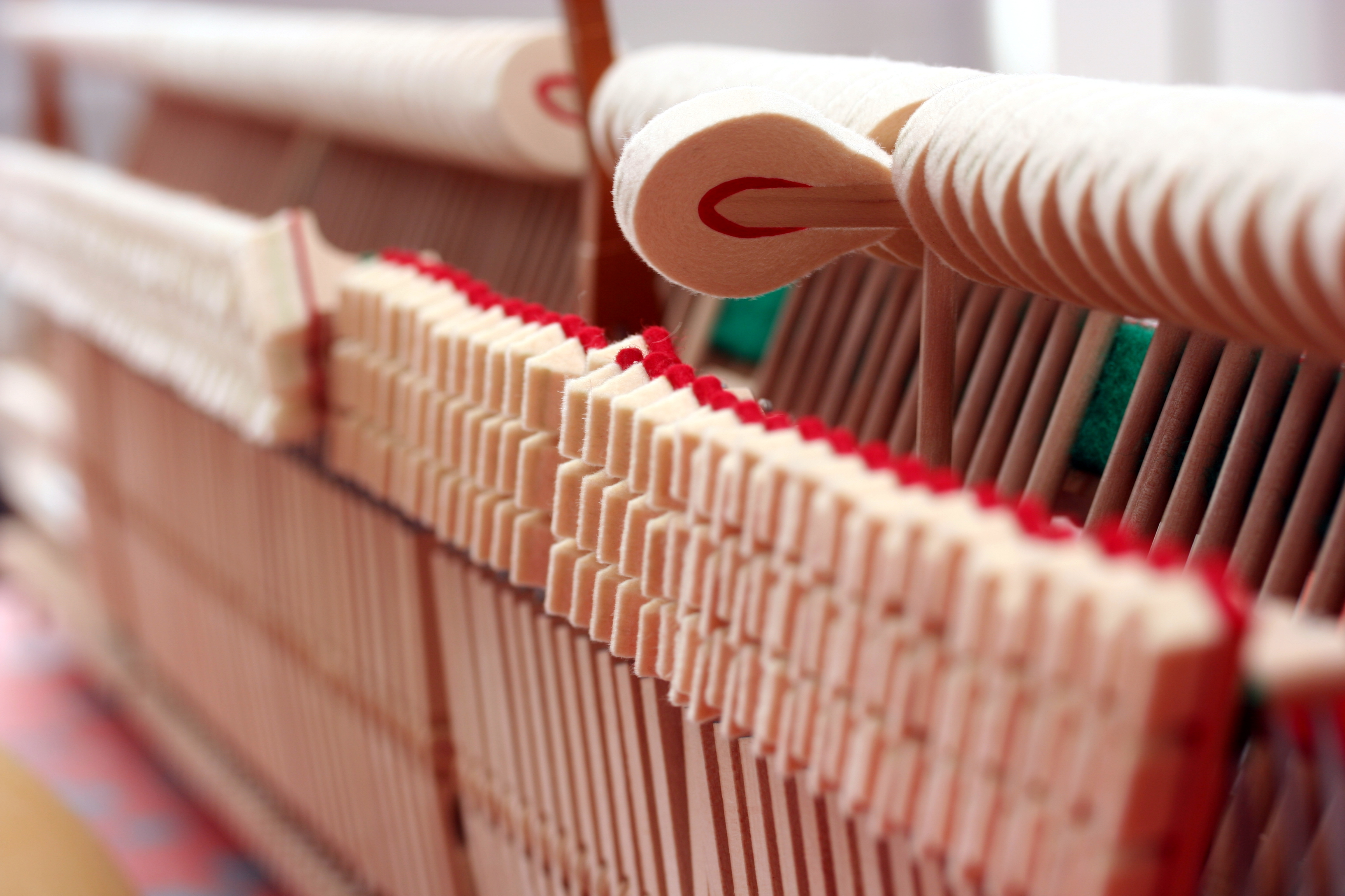 Piano hammer